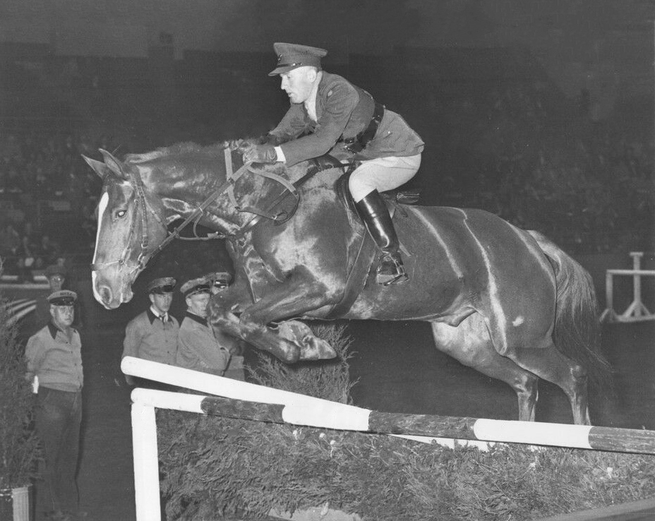 1947 Lt Col Frank Henry Horse Jumping National Horse Show NYC Press Photo